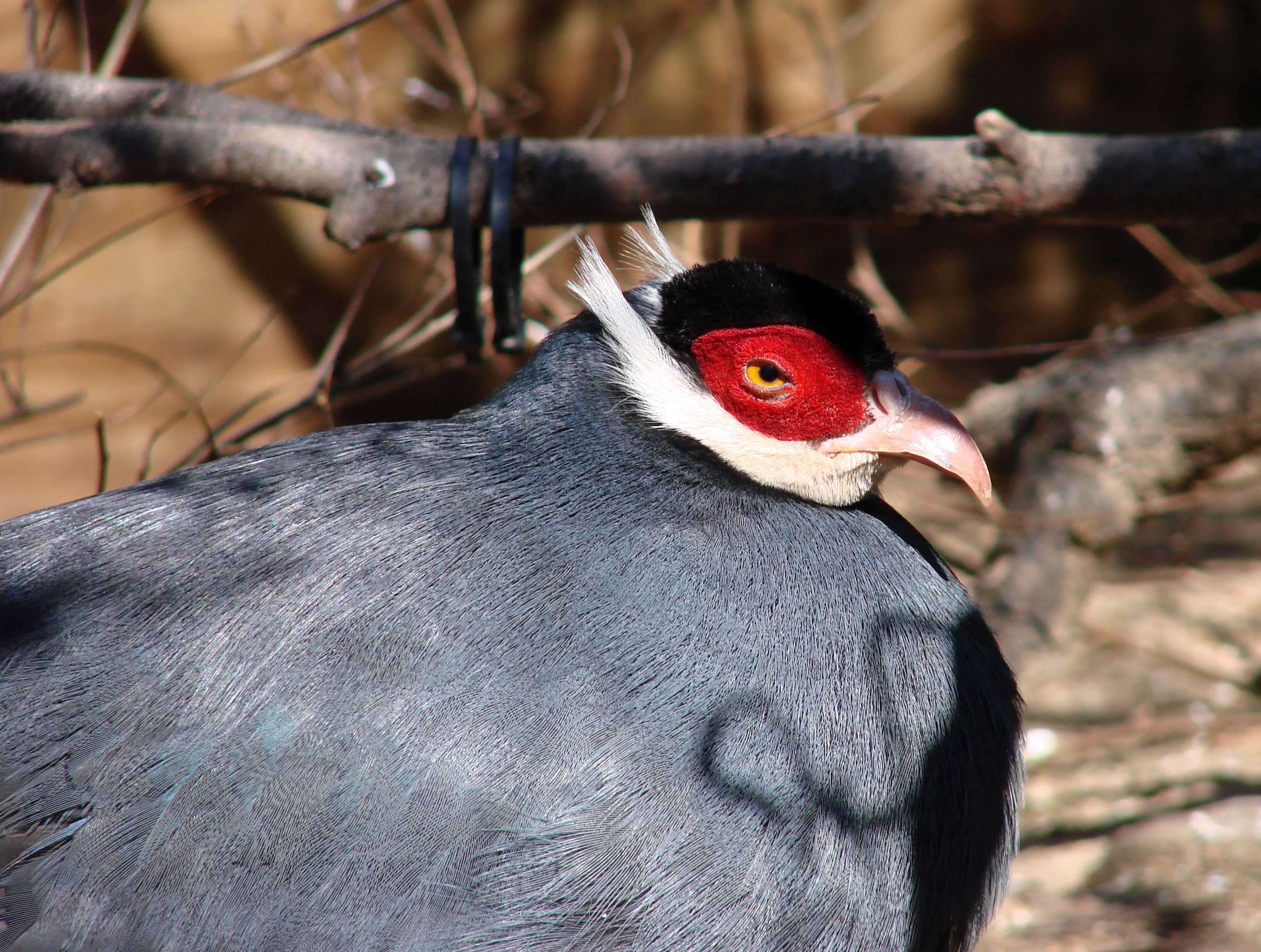 A Blue Eared Pheasant at Central Park Zoo, New York, USA.